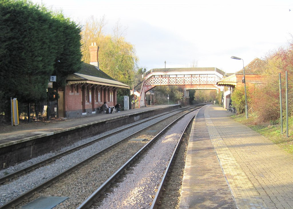 Wilmcote railway station. Opened in 1908 by the Great Western Railway on the line from Birmingham Snow Hill to Stratford-on-Avon. View north towards Wootton Wawen and Birmingham, also towards Hatton. This station replaced an earlier one (1860-1908) built to the north of the road bridge when the original line from Hatton to Stratford was constructed.